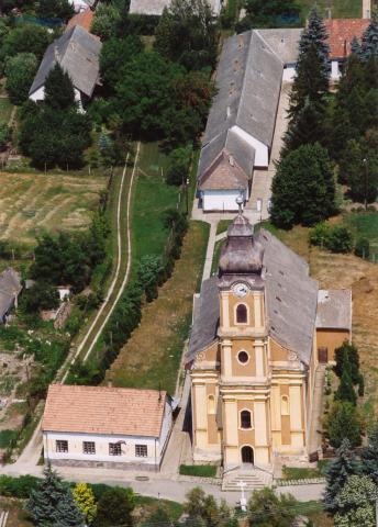 Iregszemcse, Hungary, aerialphotography